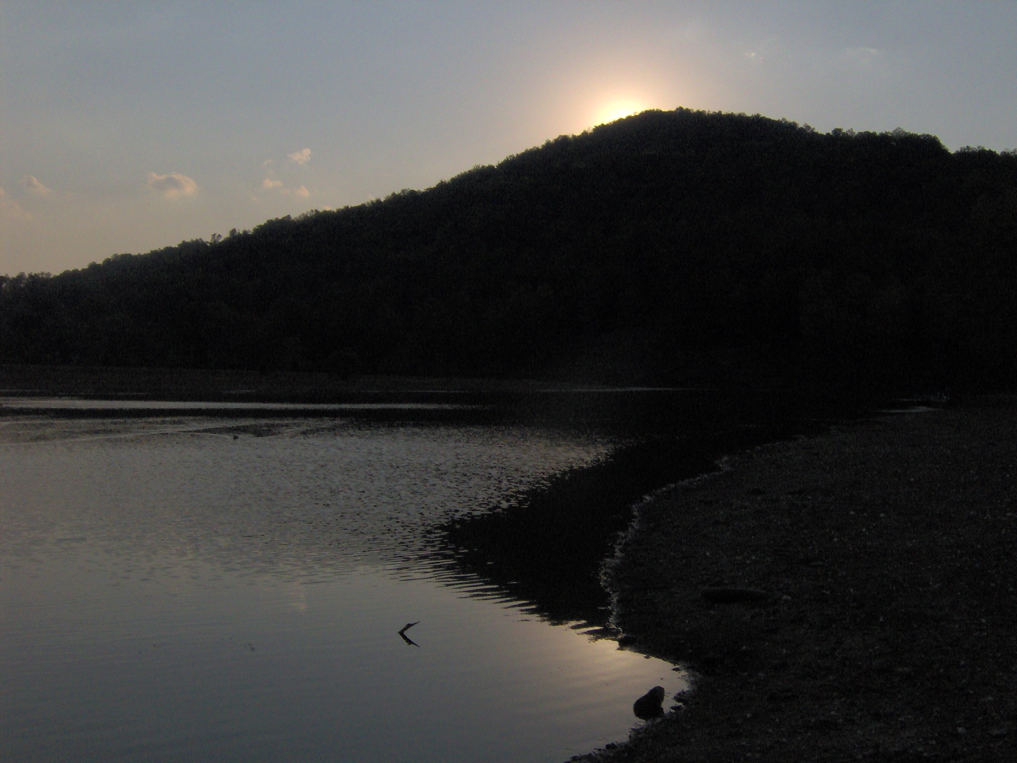 Indian Mountain rising above Indian Mountain Lake at Indian Mountain State Park in Jellico, Tennessee, in the southeastern United States. The mountain rises nearly 1000 ft. above the Elk Creek Valley in which the park is located.